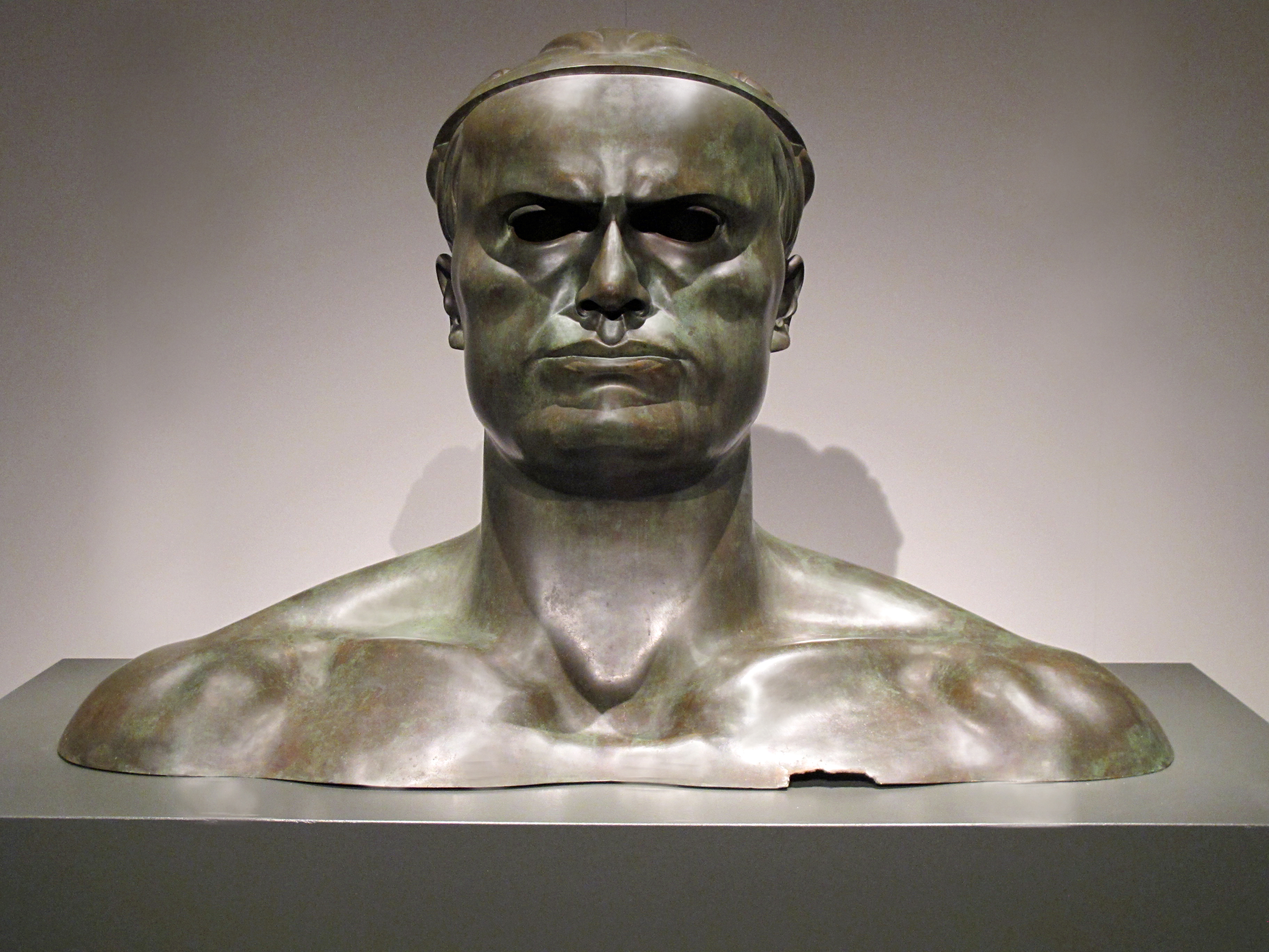 Mussolini by Adolfo Wildt (Milano, 1 marzo 1868 – Milano, 12 maggio 1931) Italy